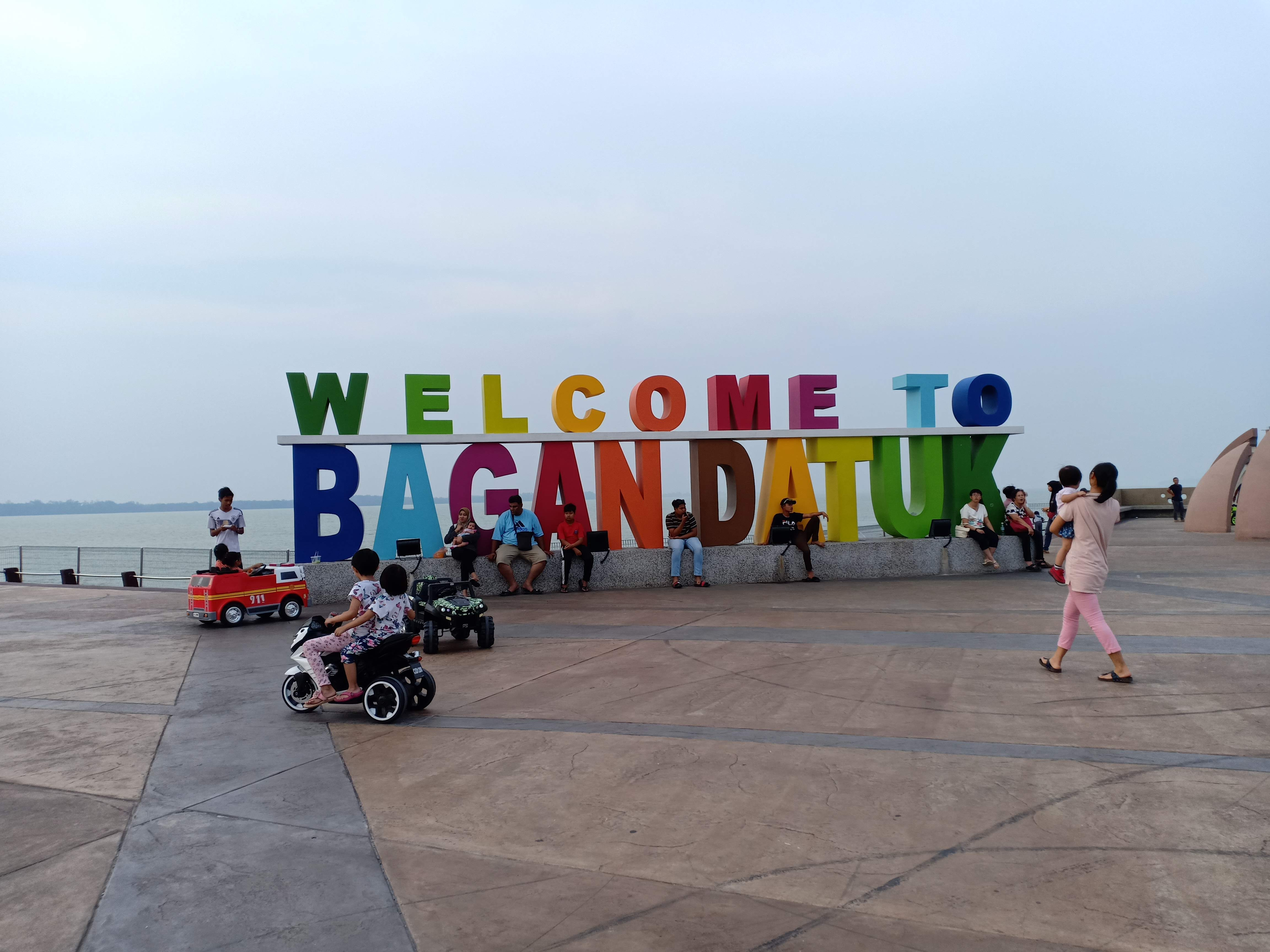 Landmark at Bagan Datuk waterfront located near Bagan Datuk jetty.